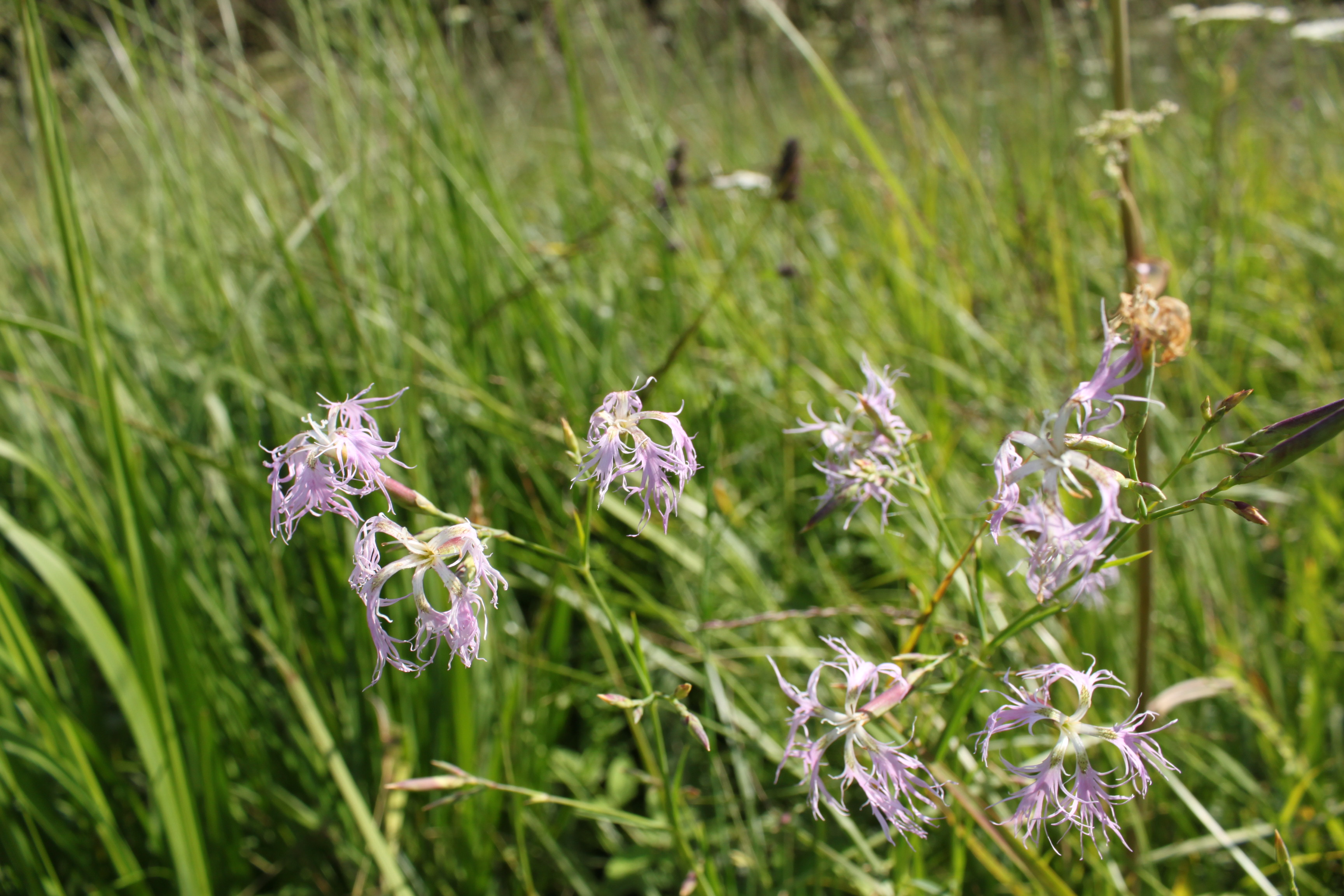 Natural Monument Boršov u Litětin near Libišany in Pardubice District. Protected locality of Dianthus superbus and Gentiana pneumonanthe.